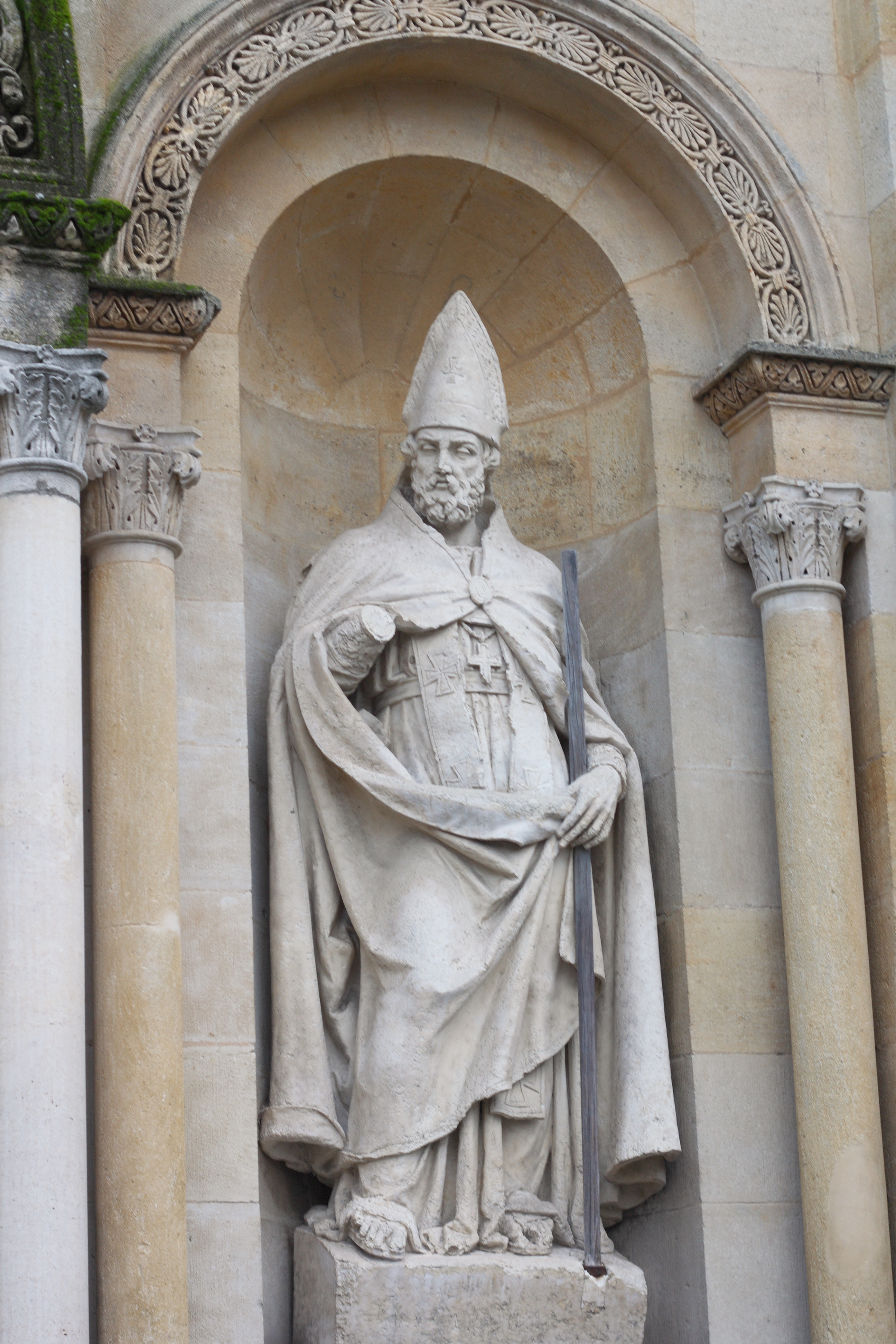 katholische Pfarrkirche Saint-Seurin in Bordeaux